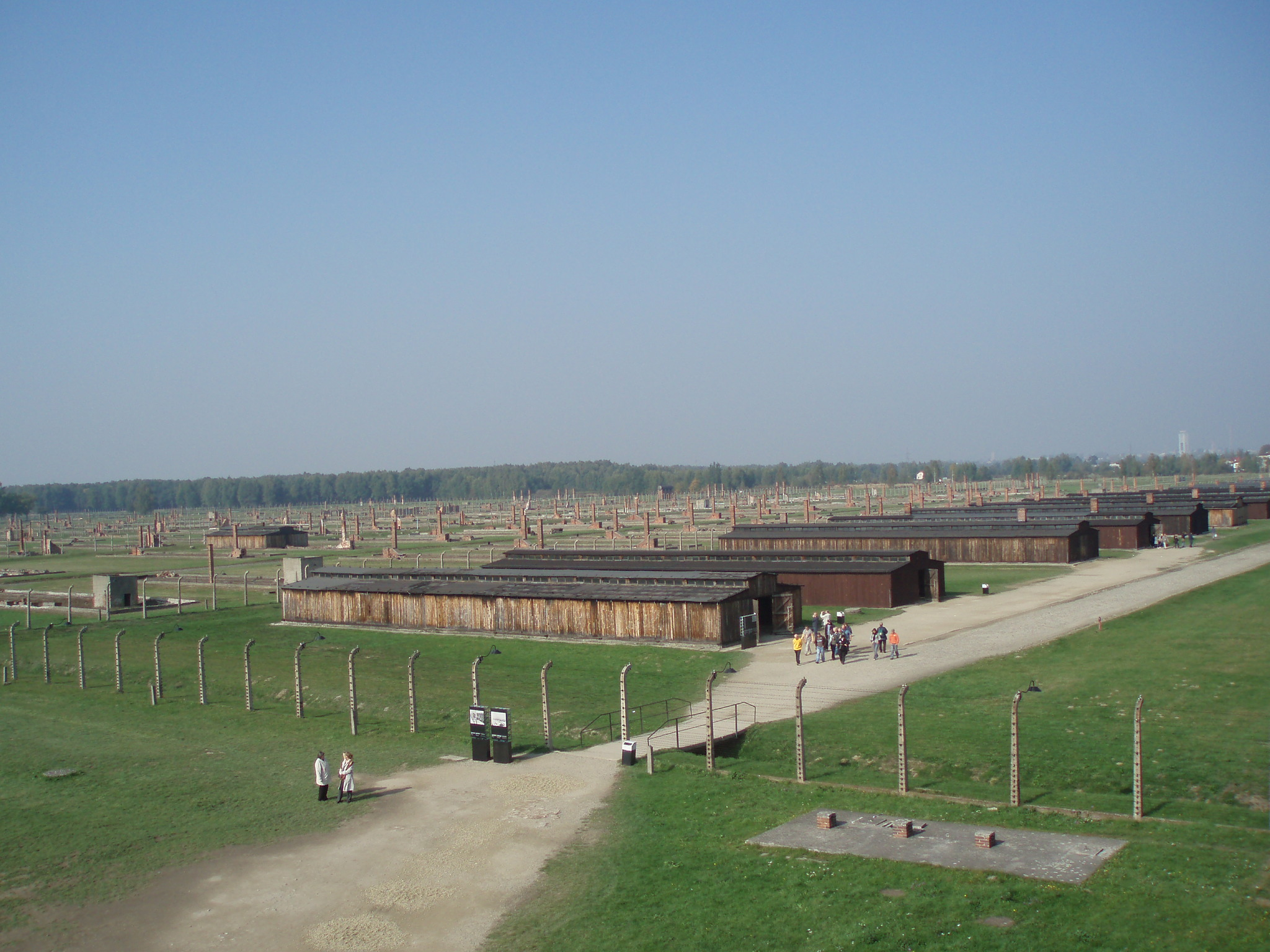 view at Birkenau death camp from the entrance gate tower